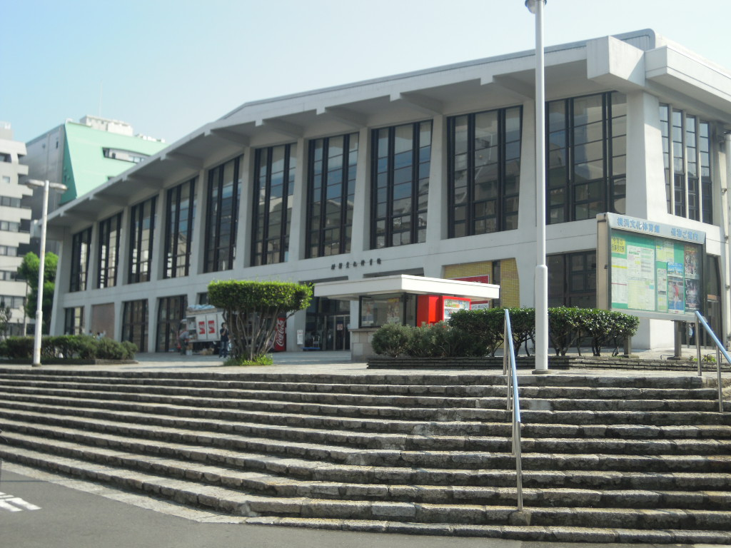 Yokohama Cultural Gymnasium.